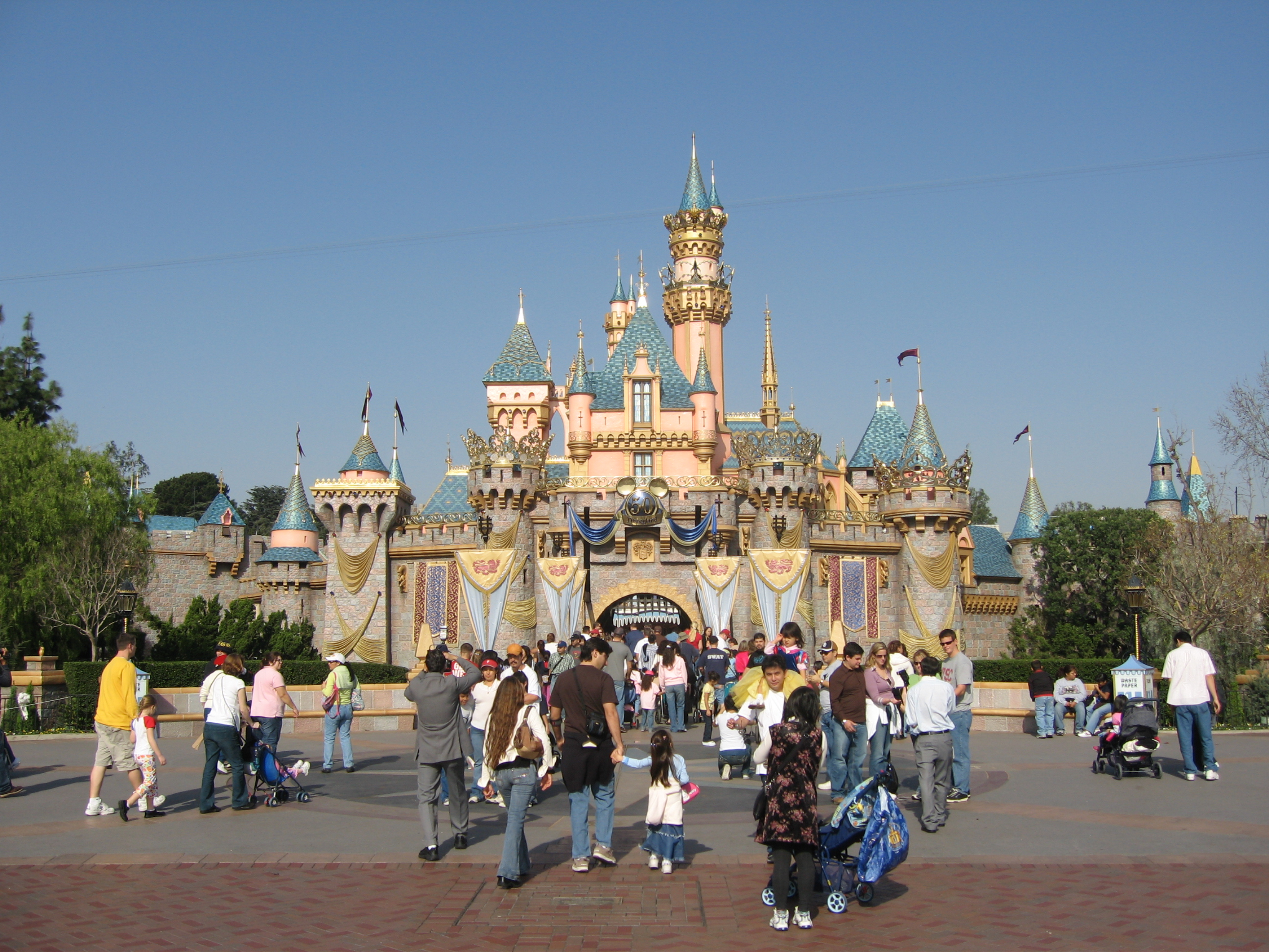 Disneyland Castle with 50th anniversary decorations.